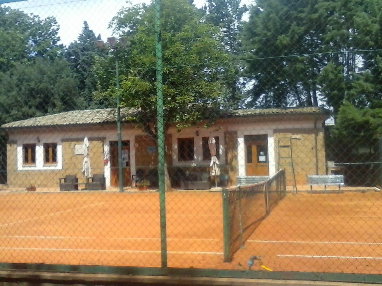 Tennis court in Ariano Irpino public park, Italy